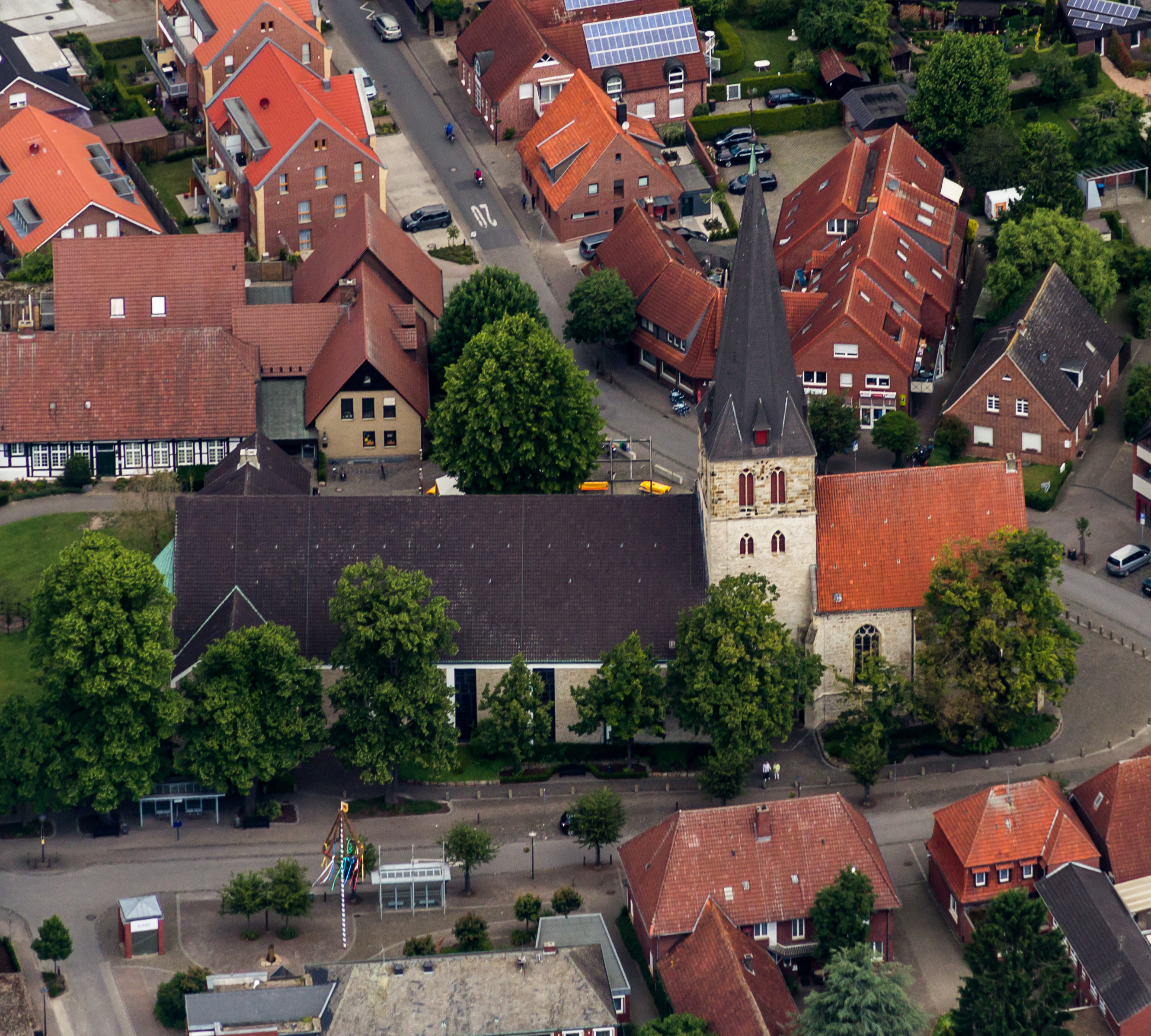 St. Ambrose Church, Ostbevern, North Rhine-Westphalia, Germany This image shows a heritage building in Germany, located in the North Rhine-Westphalian city Ostbevern (no. 24).